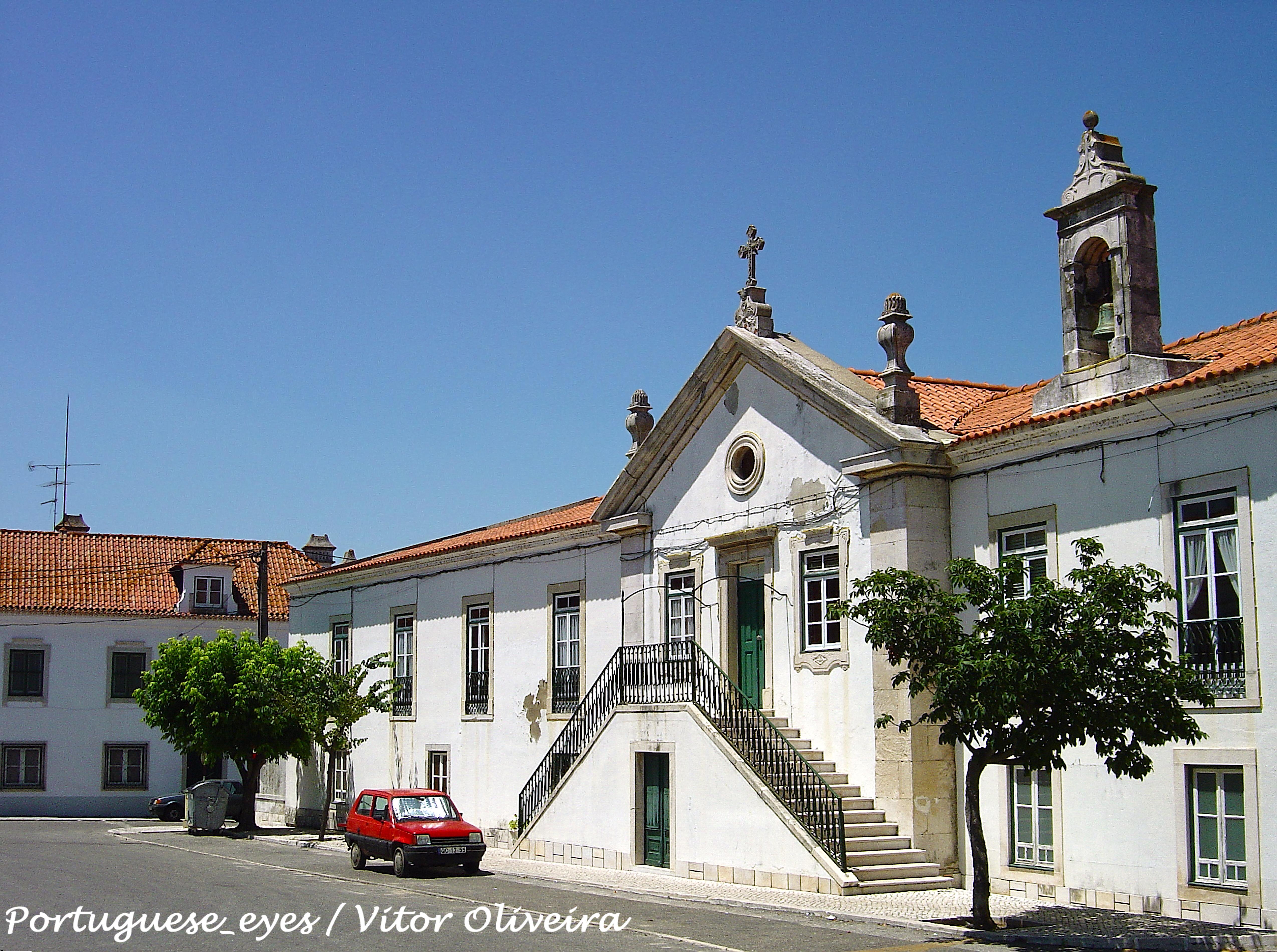 See where this picture was taken. [?]